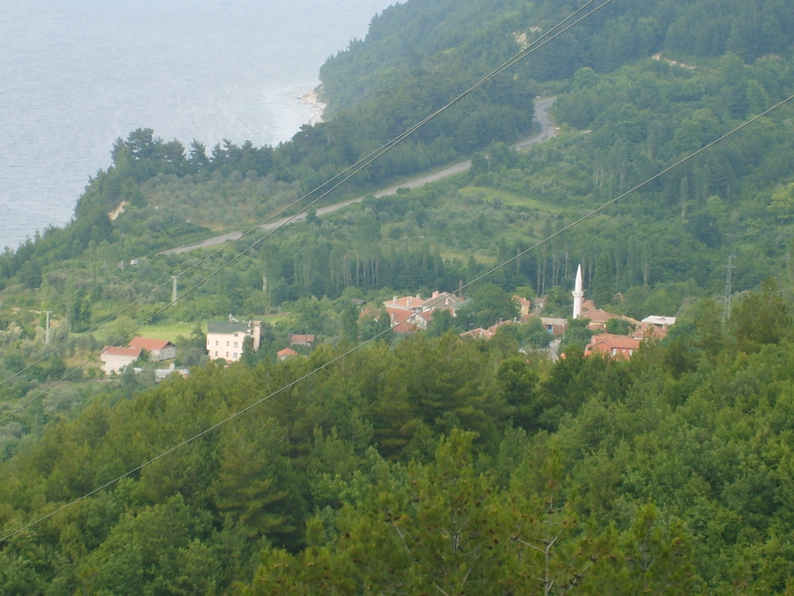 General view of Yeşilyuva, Abana.